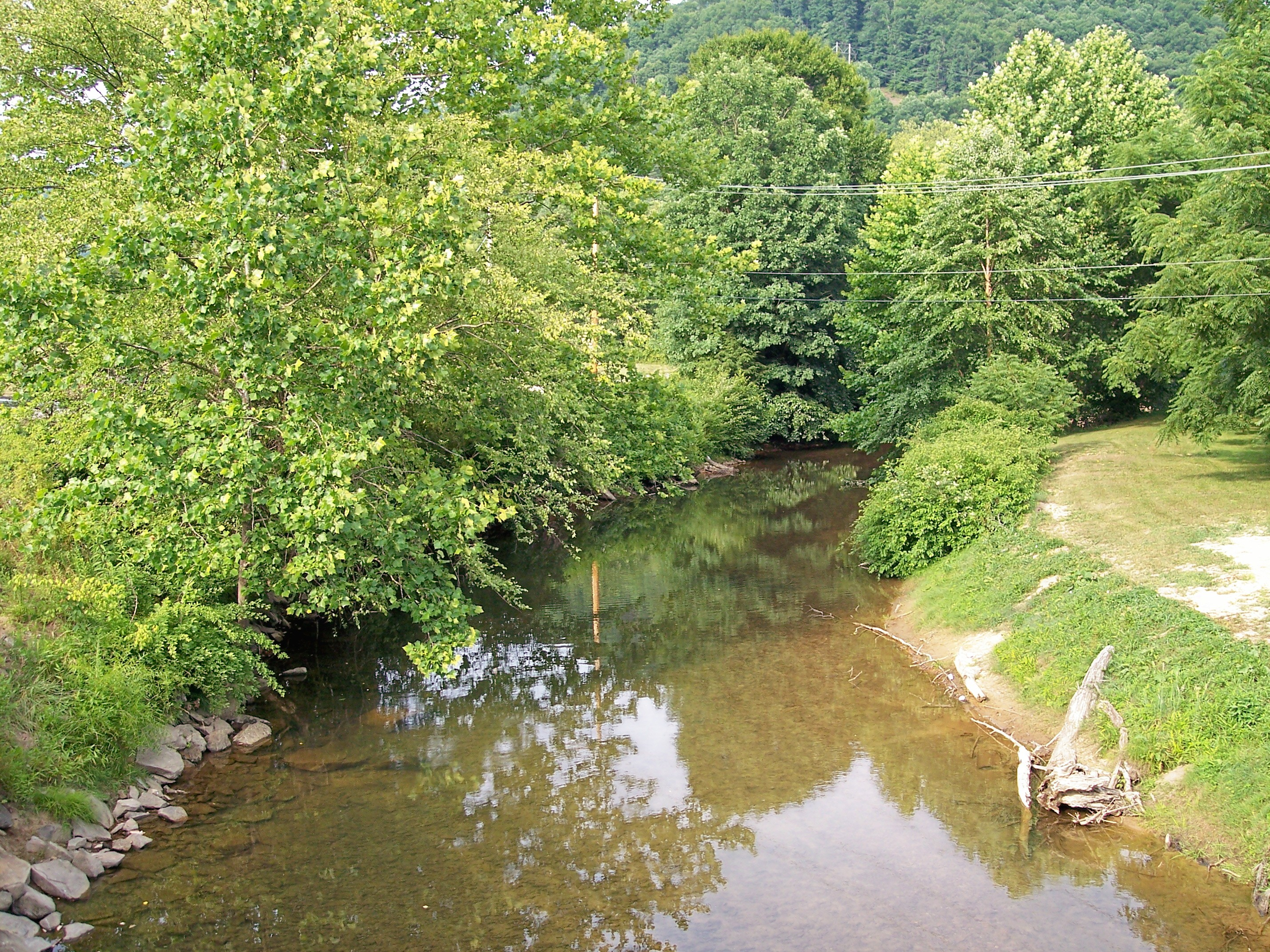 The Birch River as viewed upstream from County Road 19/41, in the community of Birch River in northern Nicholas County, West Virginia.